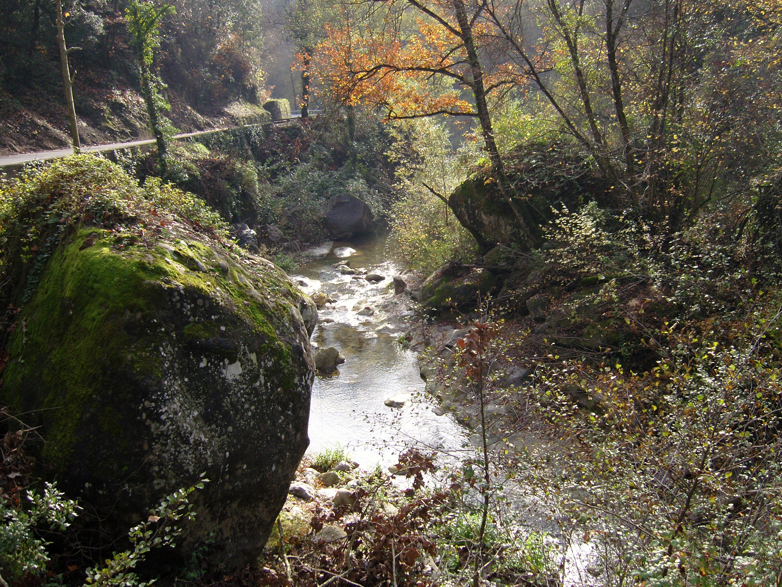 View of river "Paillon de Contes" upstream from Contes, Alpes-Maritimes, France